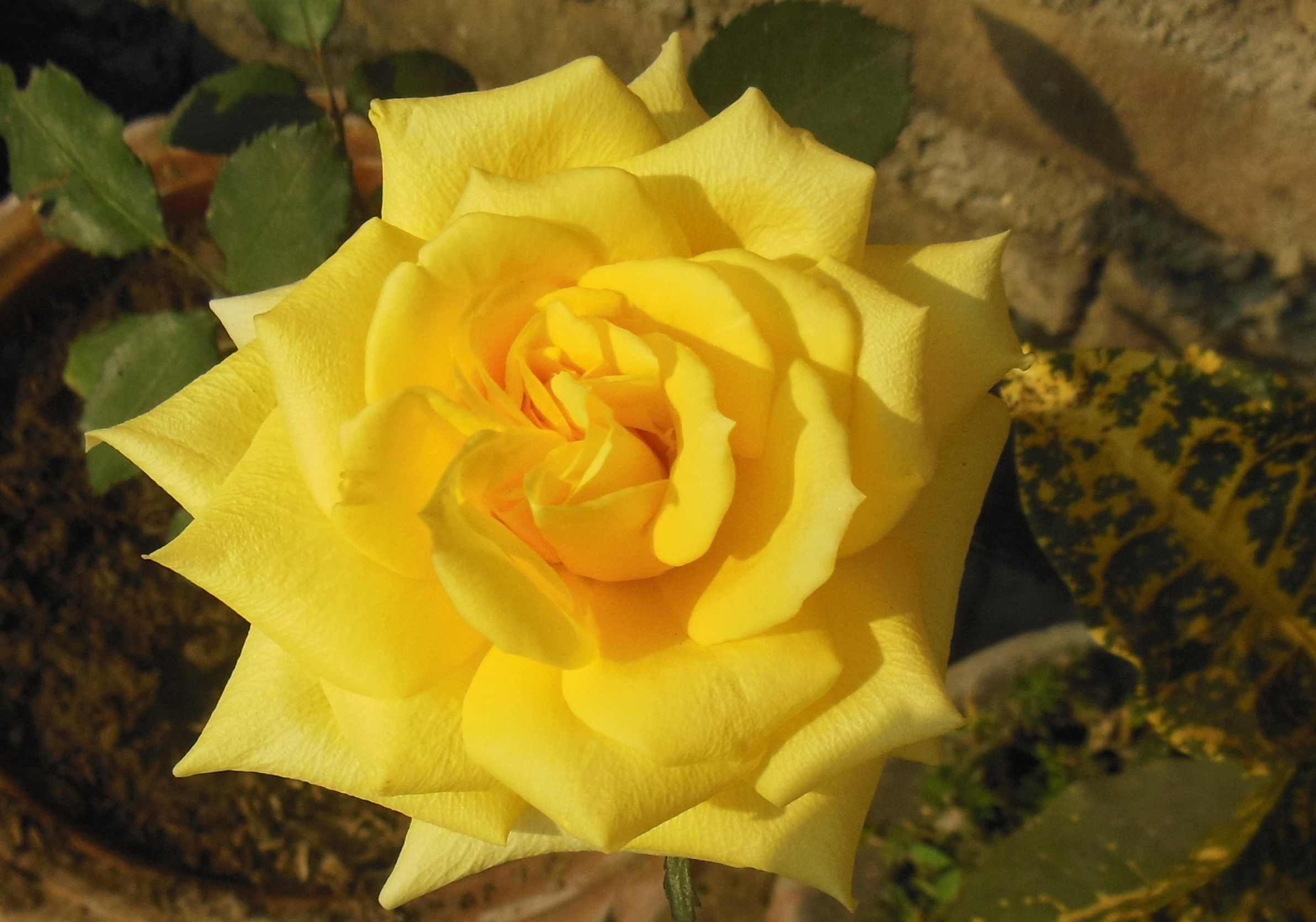 English Rose-Yellow